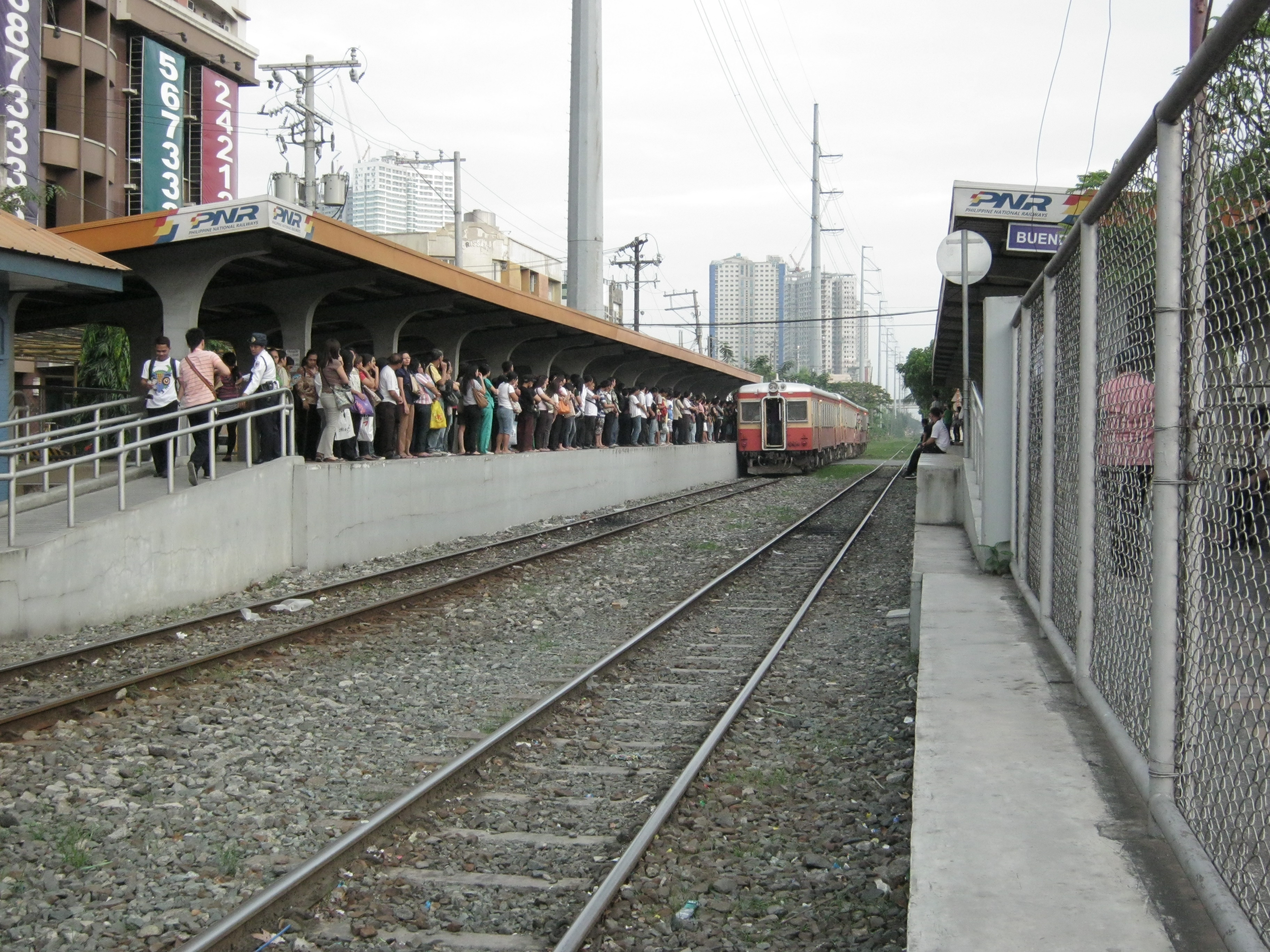 PNR Buendia Station